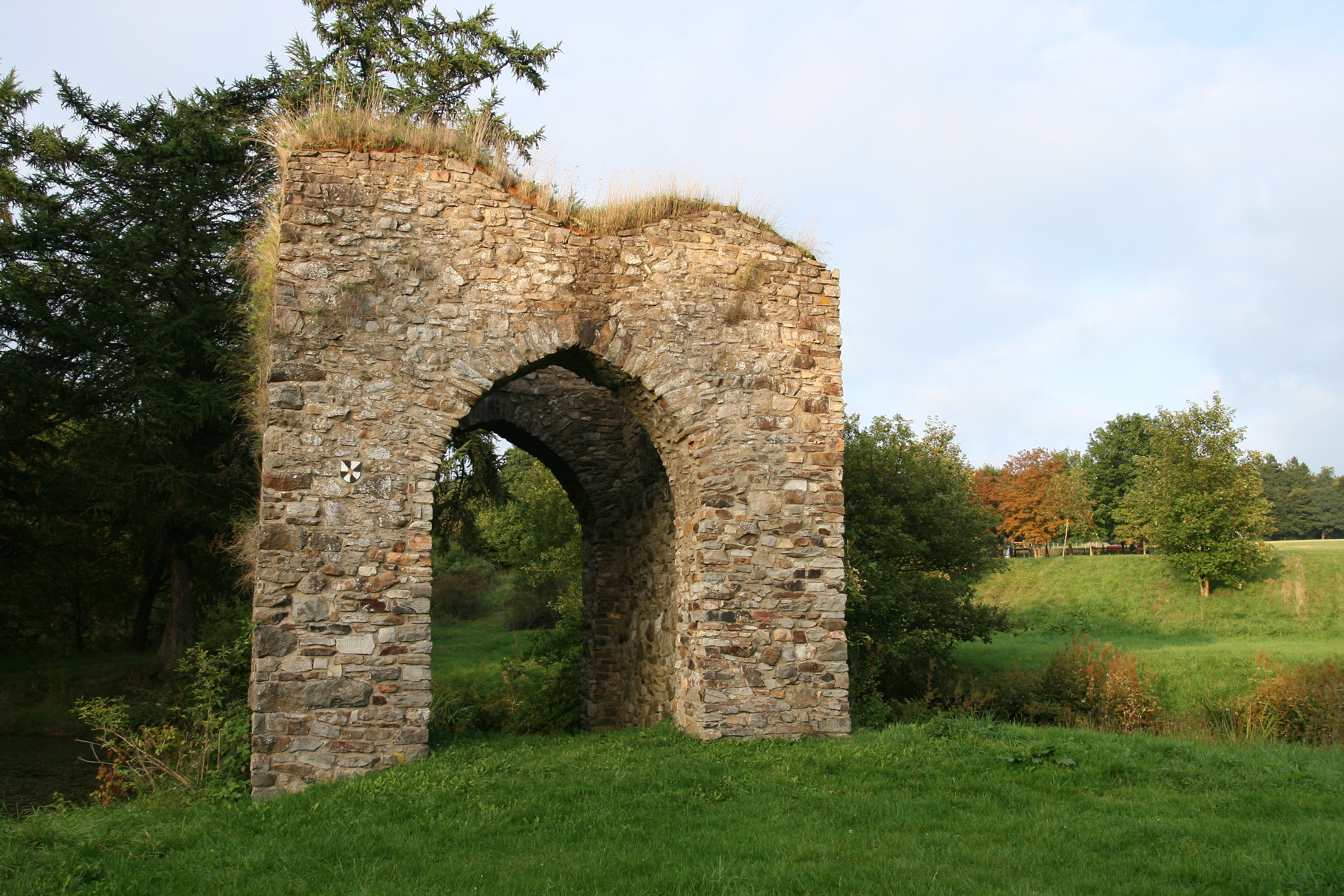 Arch of the ruins of Burg Steinebach in Steinebach an der Wied village, Westerwald region, Rhineland-Palatinate, Germany